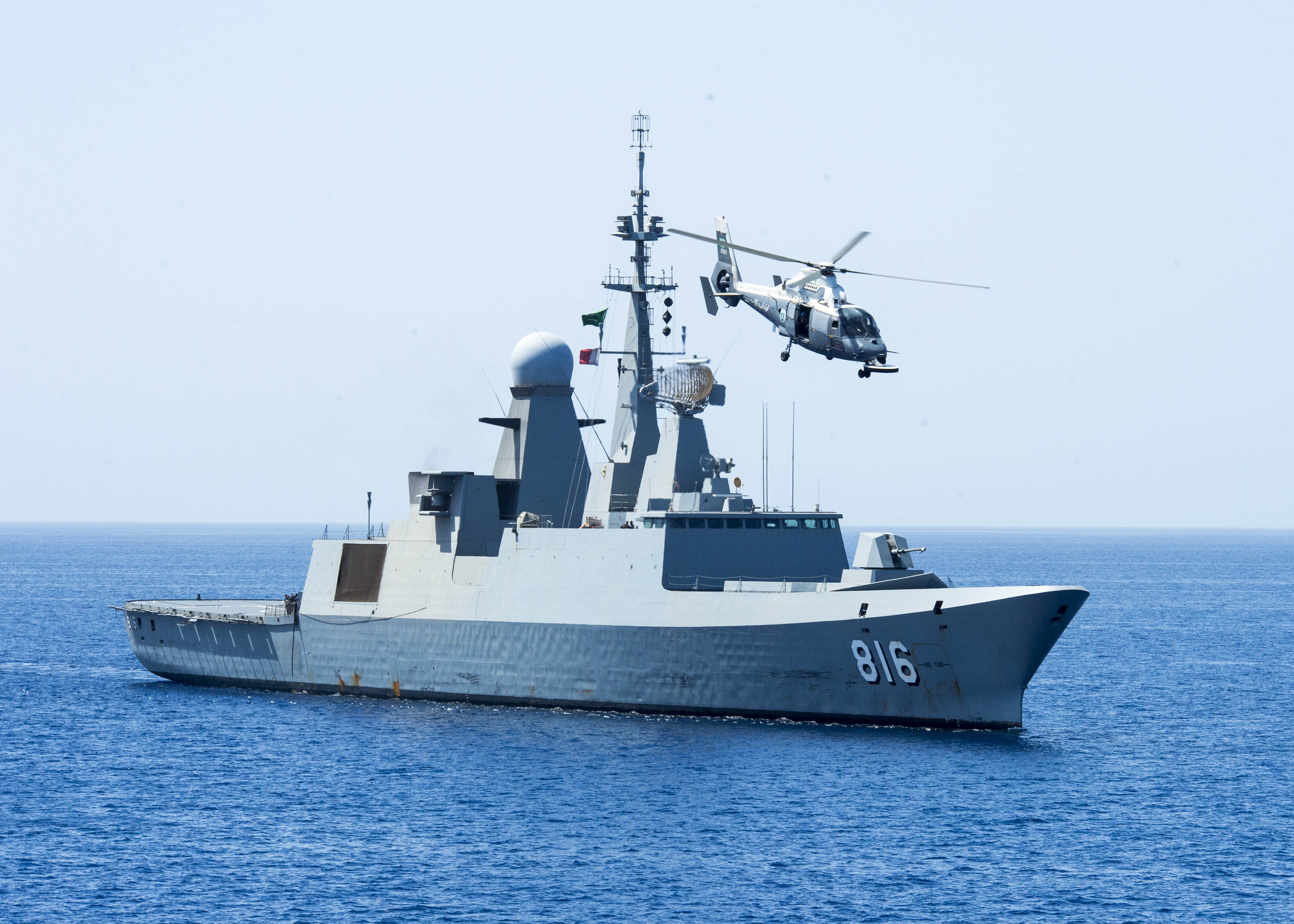 The Royal Saudi Navy frigate Al Dammam (816) maneuvers into position, with its embarked AS565 SA Dauphin helicopter circling overhead, during exercise "Eager Lion 2014" in the Gulf of Aden. "Eager Lion" is a recurring, multinational exercise designed to strengthen military-to-military relationships and enhance regional security and stability by responding to modern-day security scenarios.